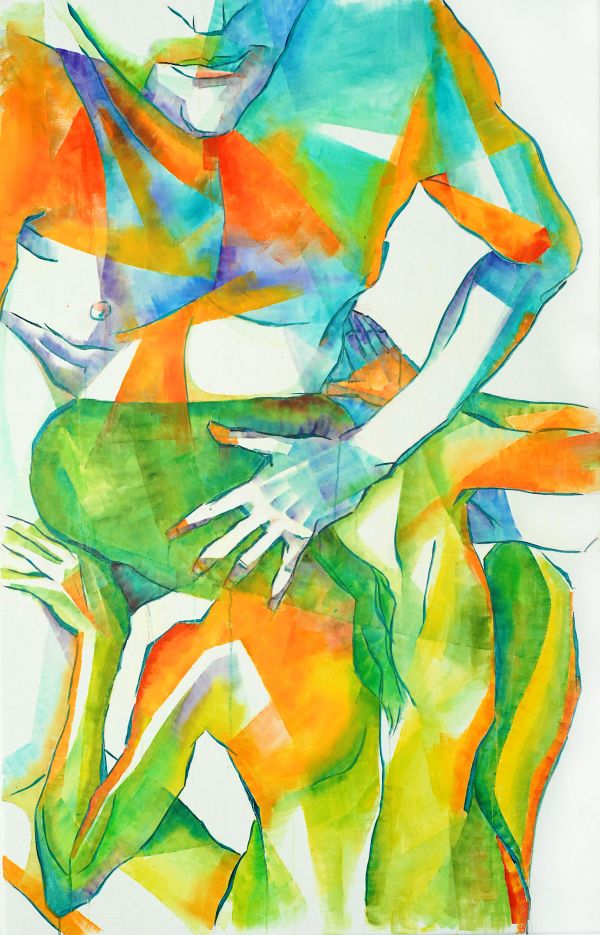 Juhász Tibor Champagne